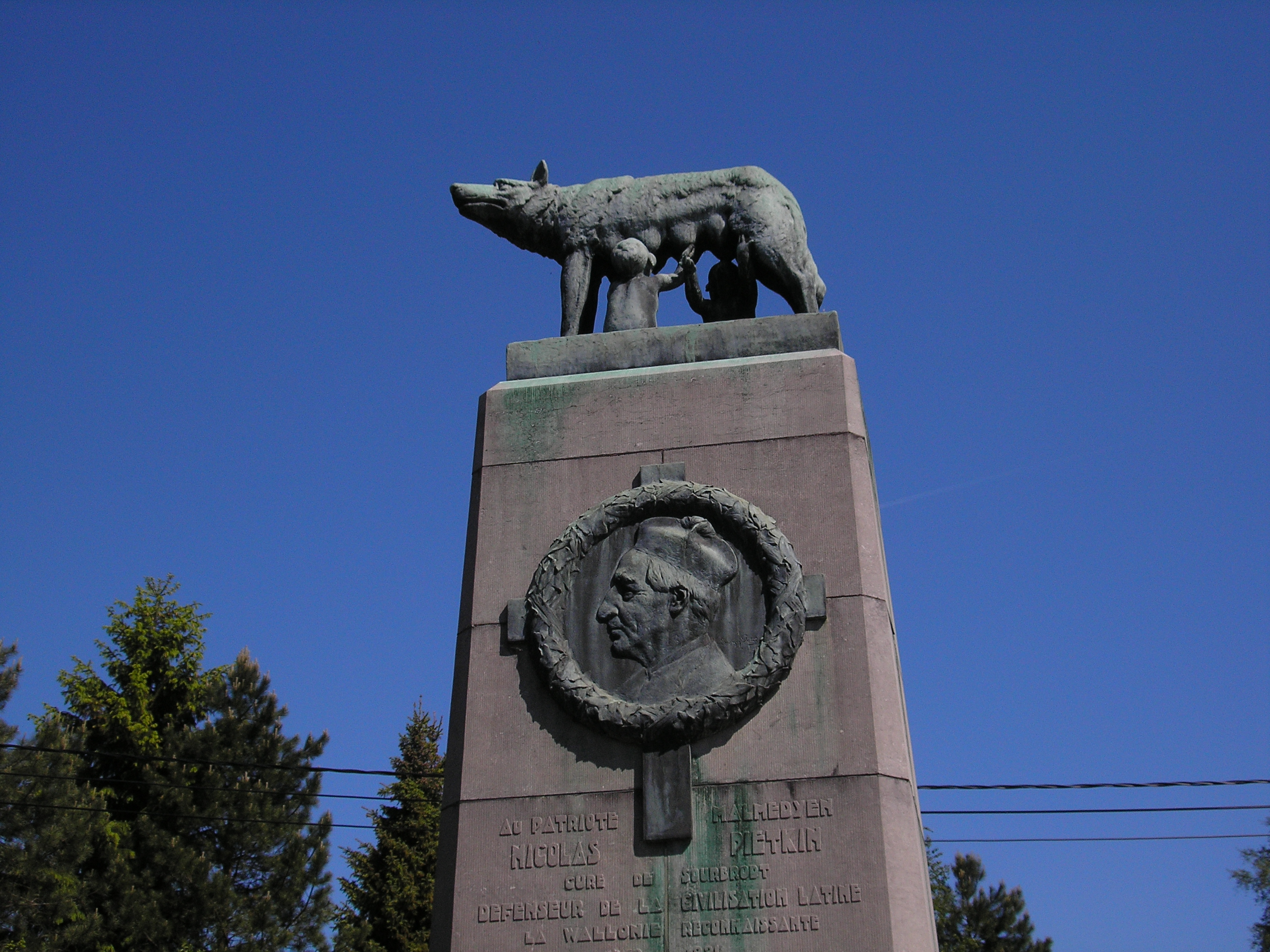 Monument for Nicolas Pietkin in Sourbrodt, East Belgium